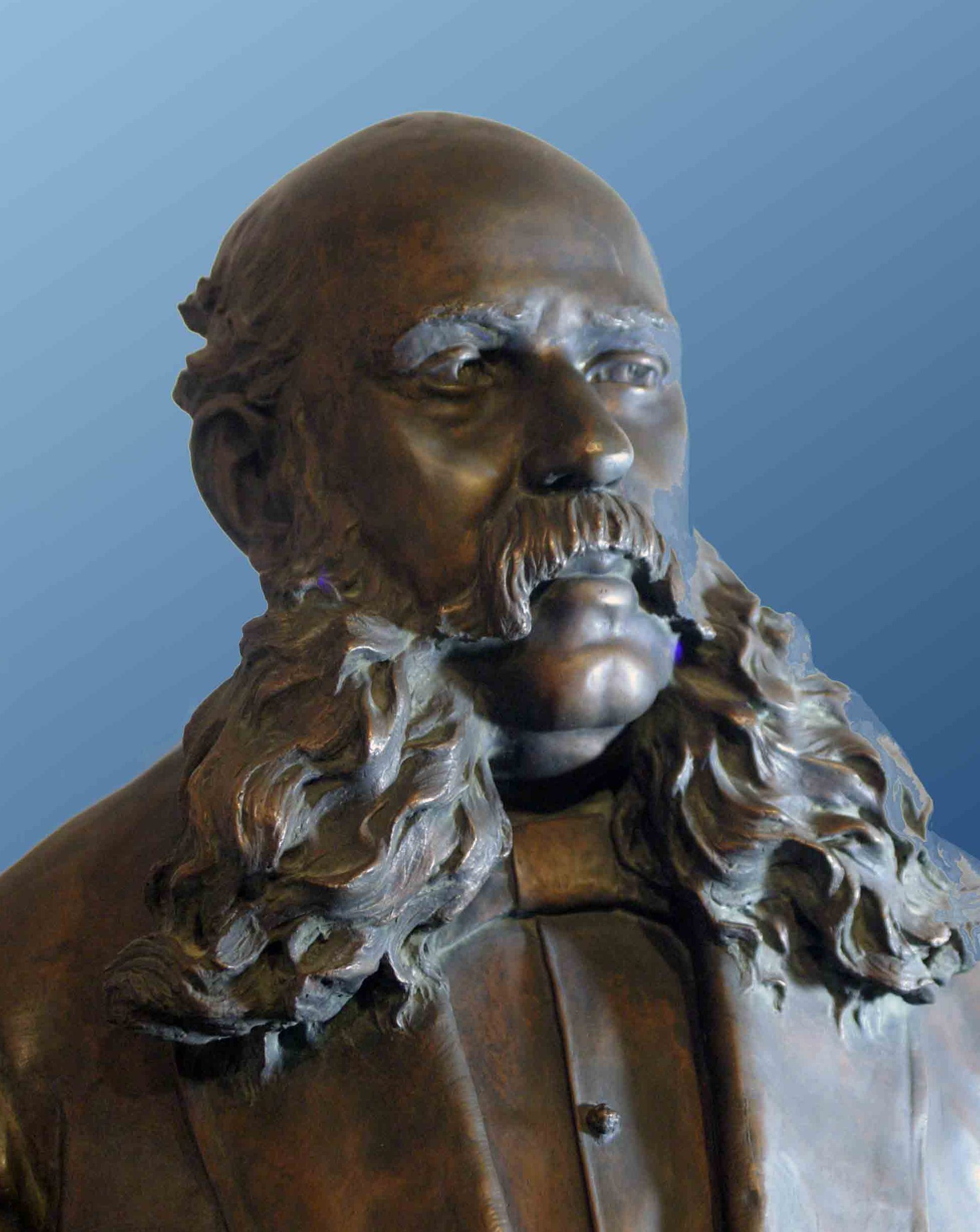 Rius i Taulet by Alentorn